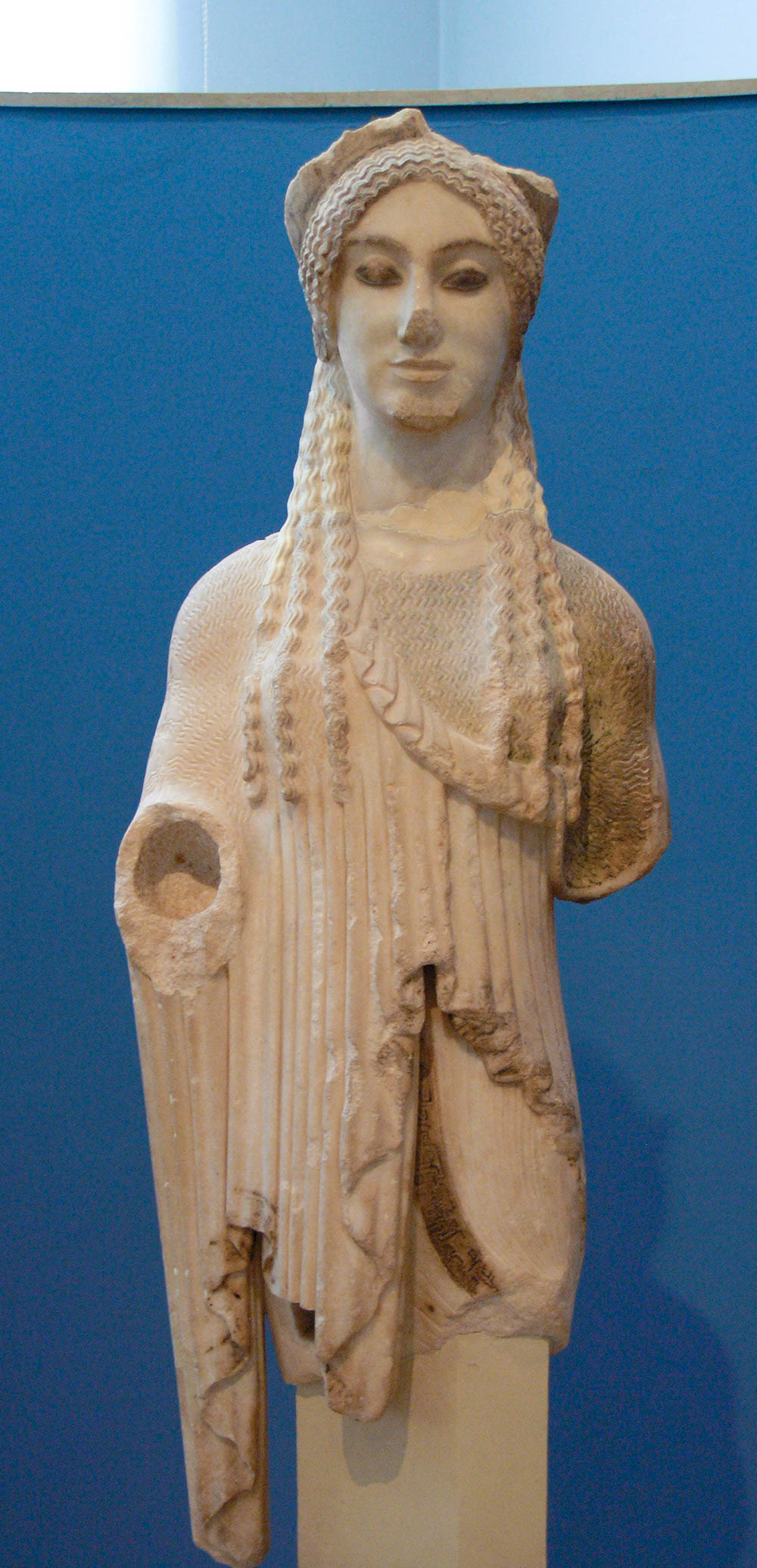 Kore in marble from Paros. ca. 500 BC